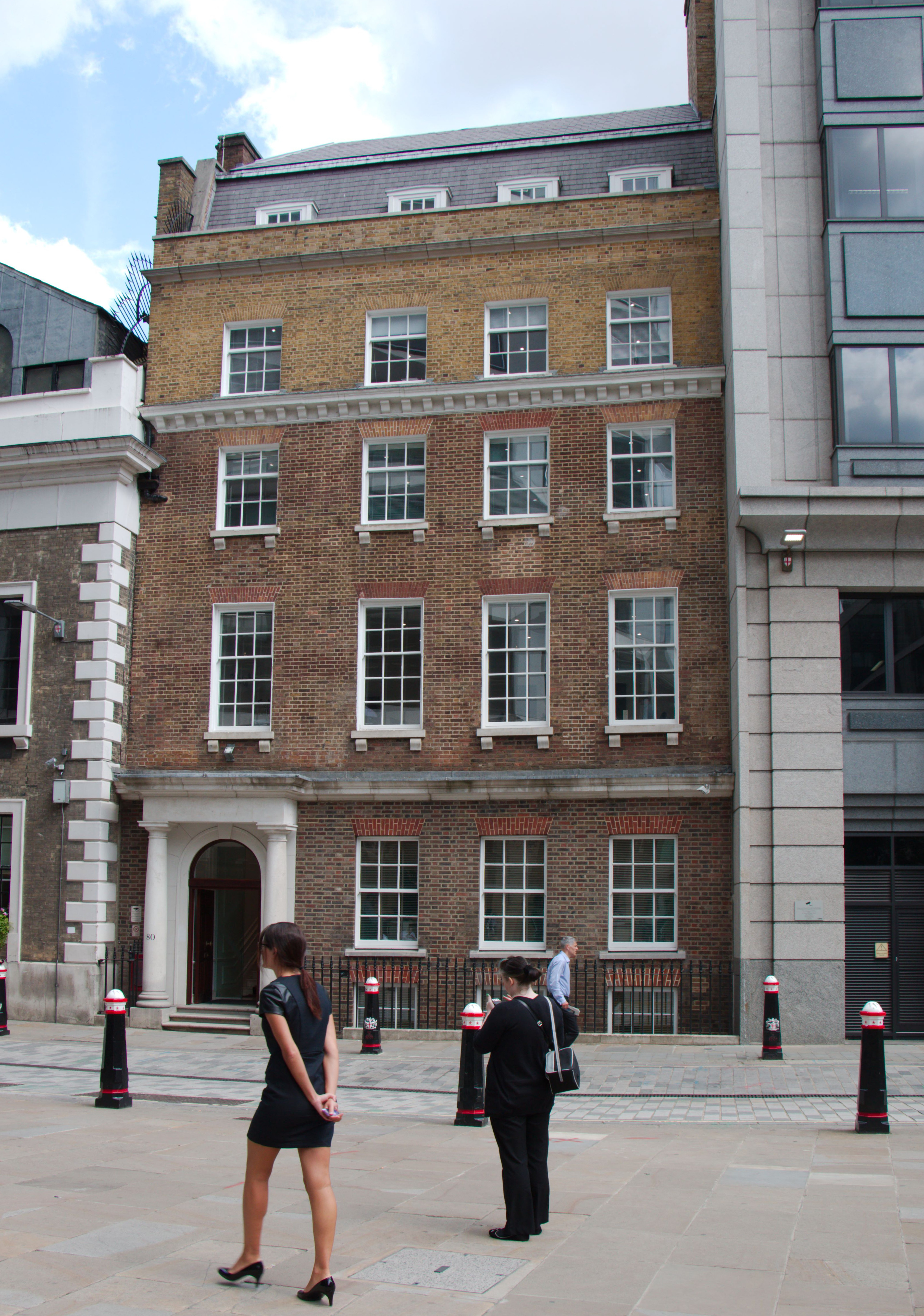 The building 80 Coleman Street in London, United Kingdom